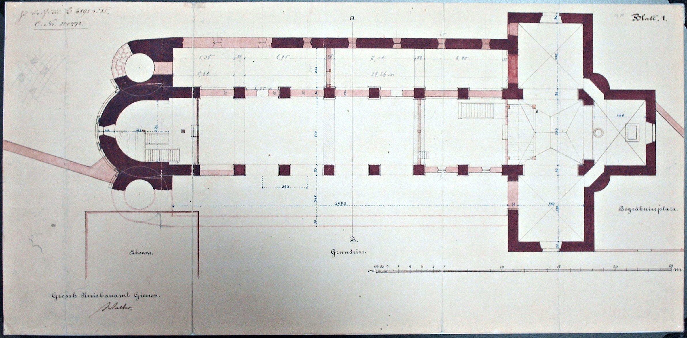 Historical drawing at Schiffenberg, Gießen, Germany check usage